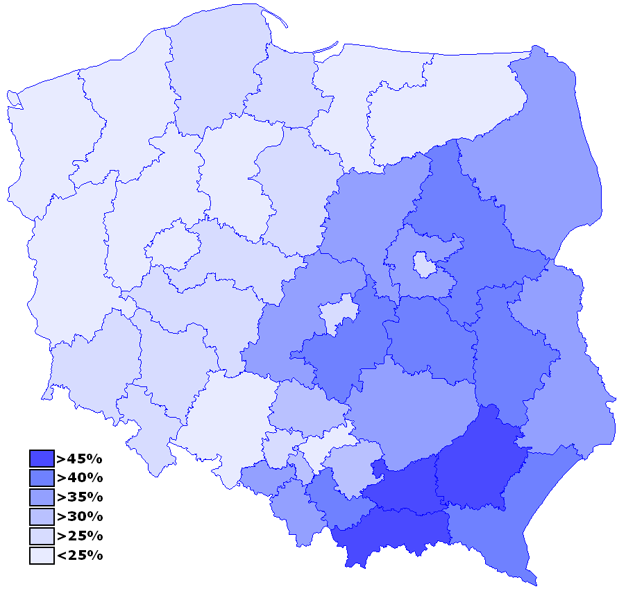 Polish parliamentary election, 2007 - Law and Justice votes by electoral districts